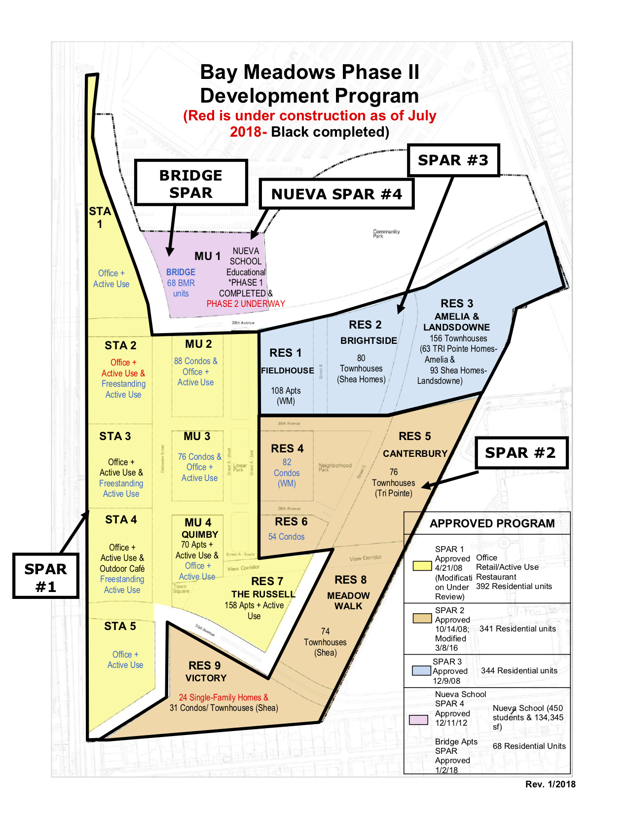 This figure illustrates the development blocks in Bay Meadows II and their current development status.